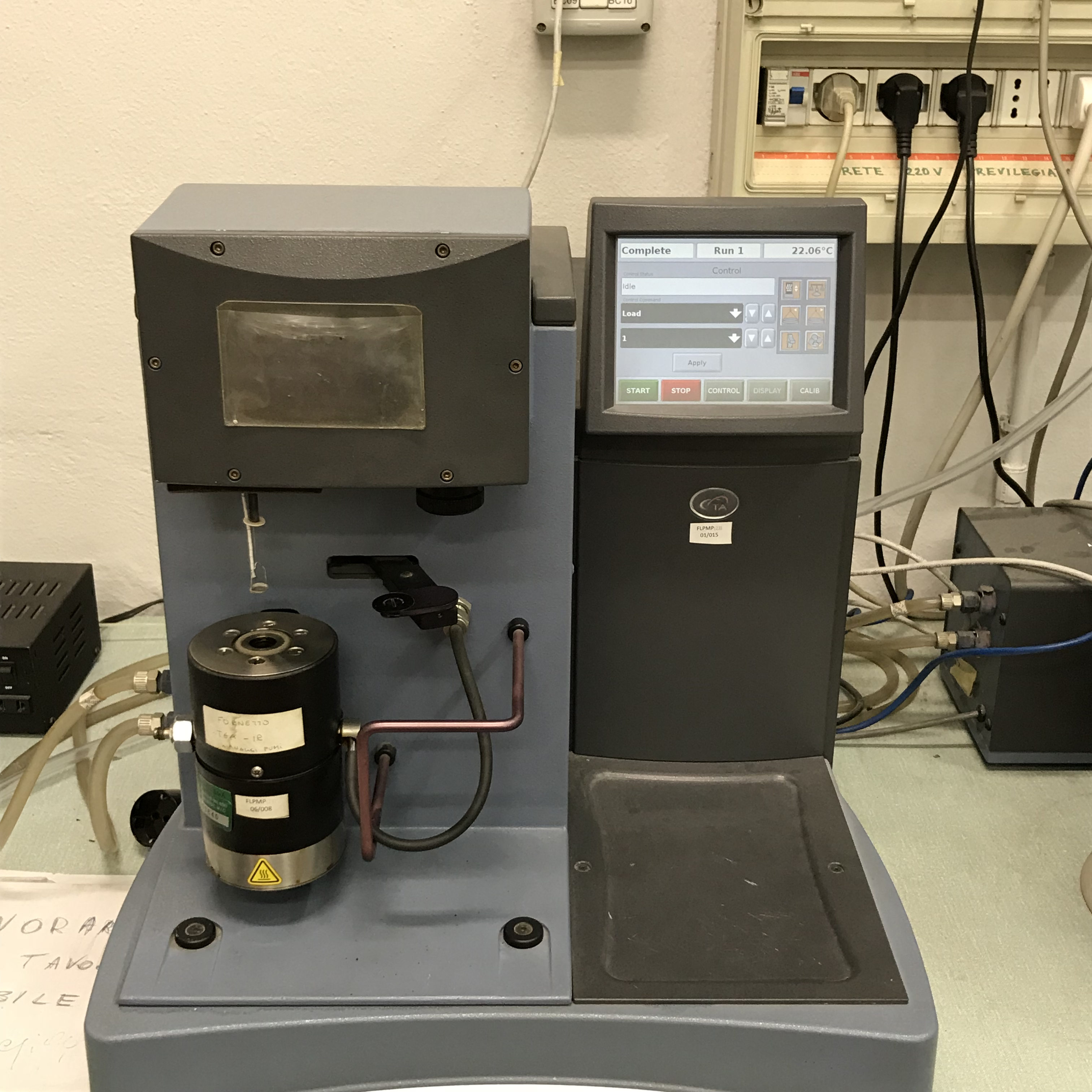 Experimental setup: Thermogravimetry instrument with EGA furnace